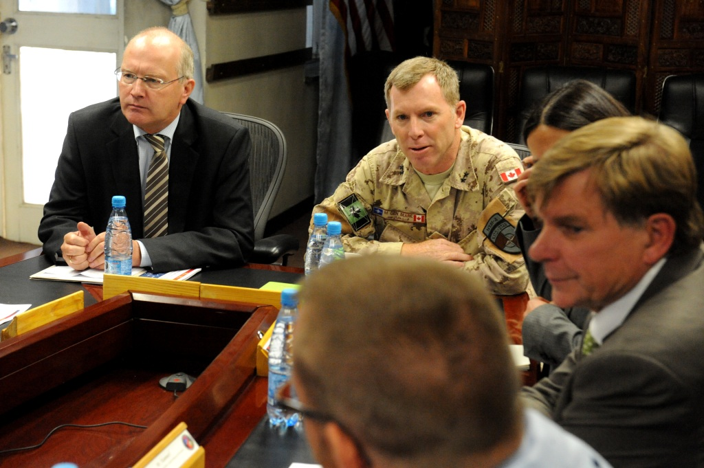 Kabul - Canadian Maj.Gen. Stuart Beare, Deputy Commanding General - Police, meets with Klaus-Dieter Fritsche, German State Secretary to the Ministry of Interior on Sep. 2, 2010. Mr. Fritsche attended a situation brief while visiting Camp Eggers. (U.S. Air Force photo/Staff Sergeant Matt Davis)